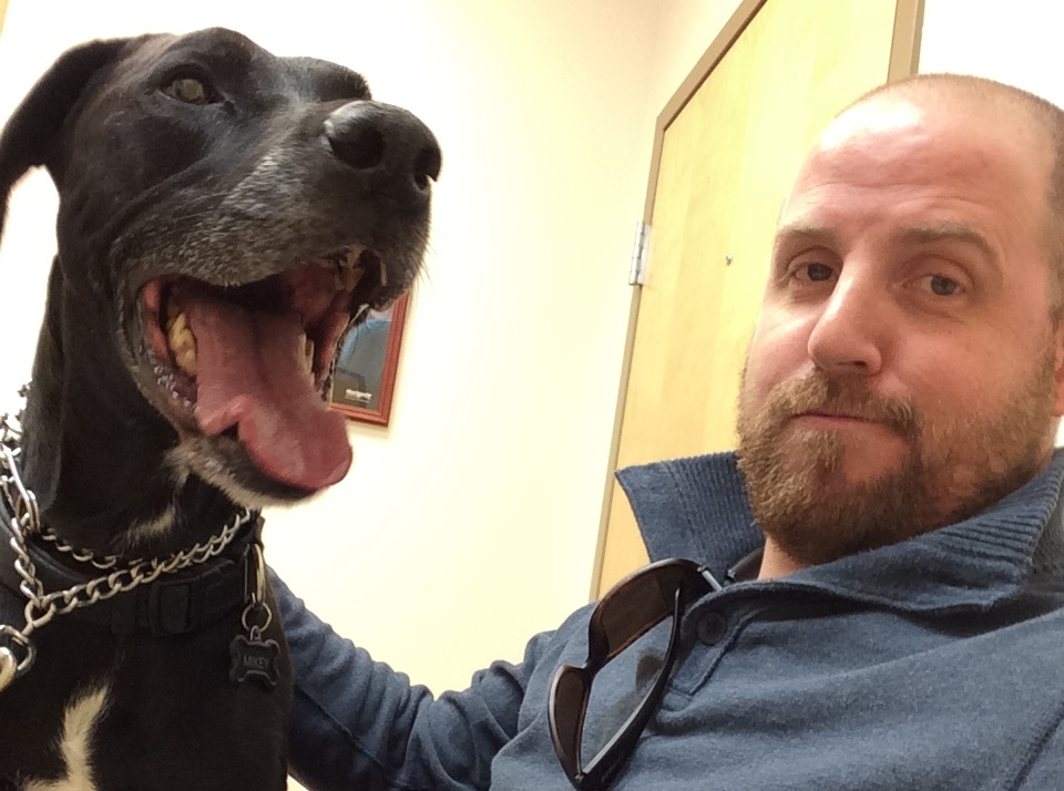 Jarrett Bellini and his dog Mikey